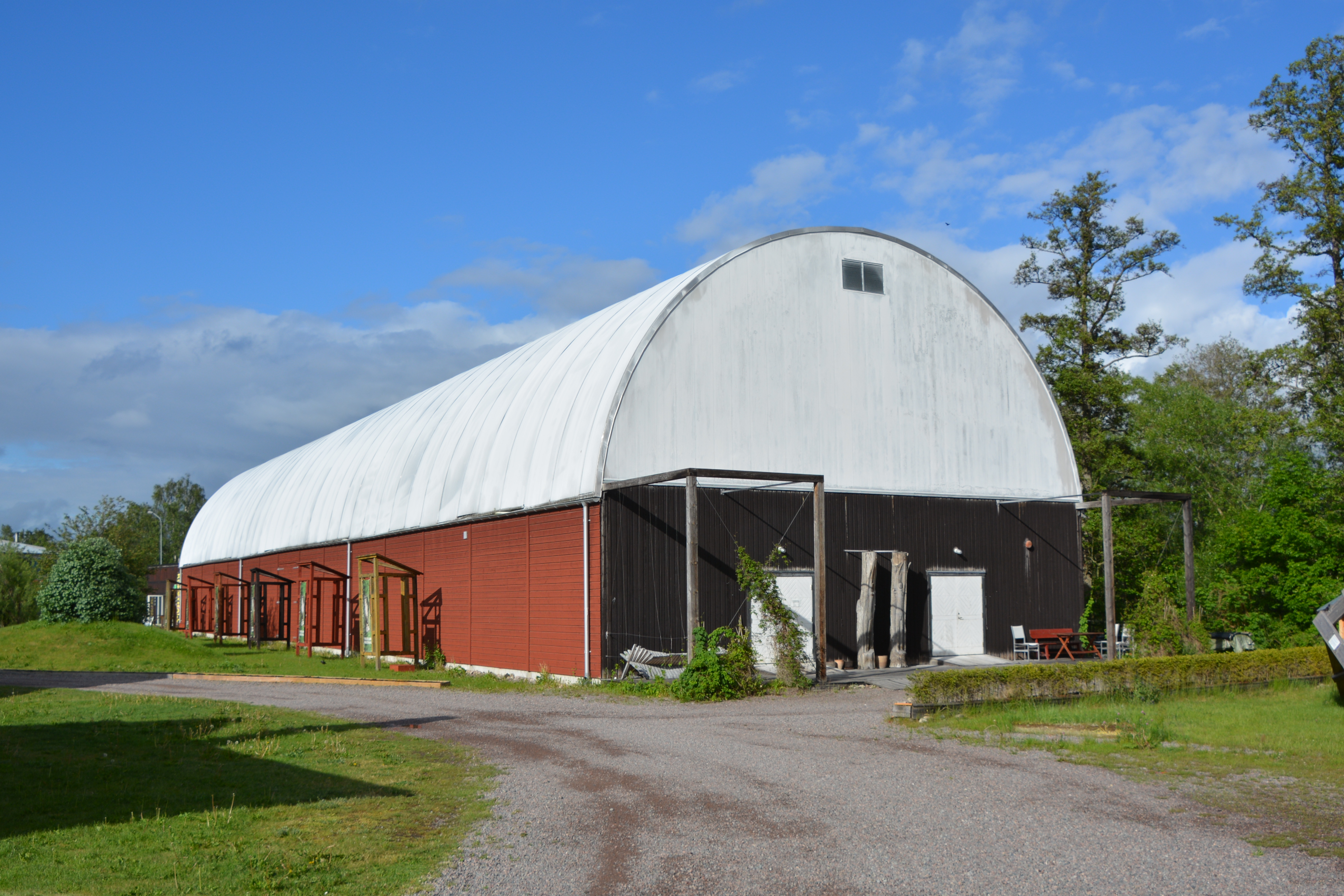 Pappershuset Virserums konsthall